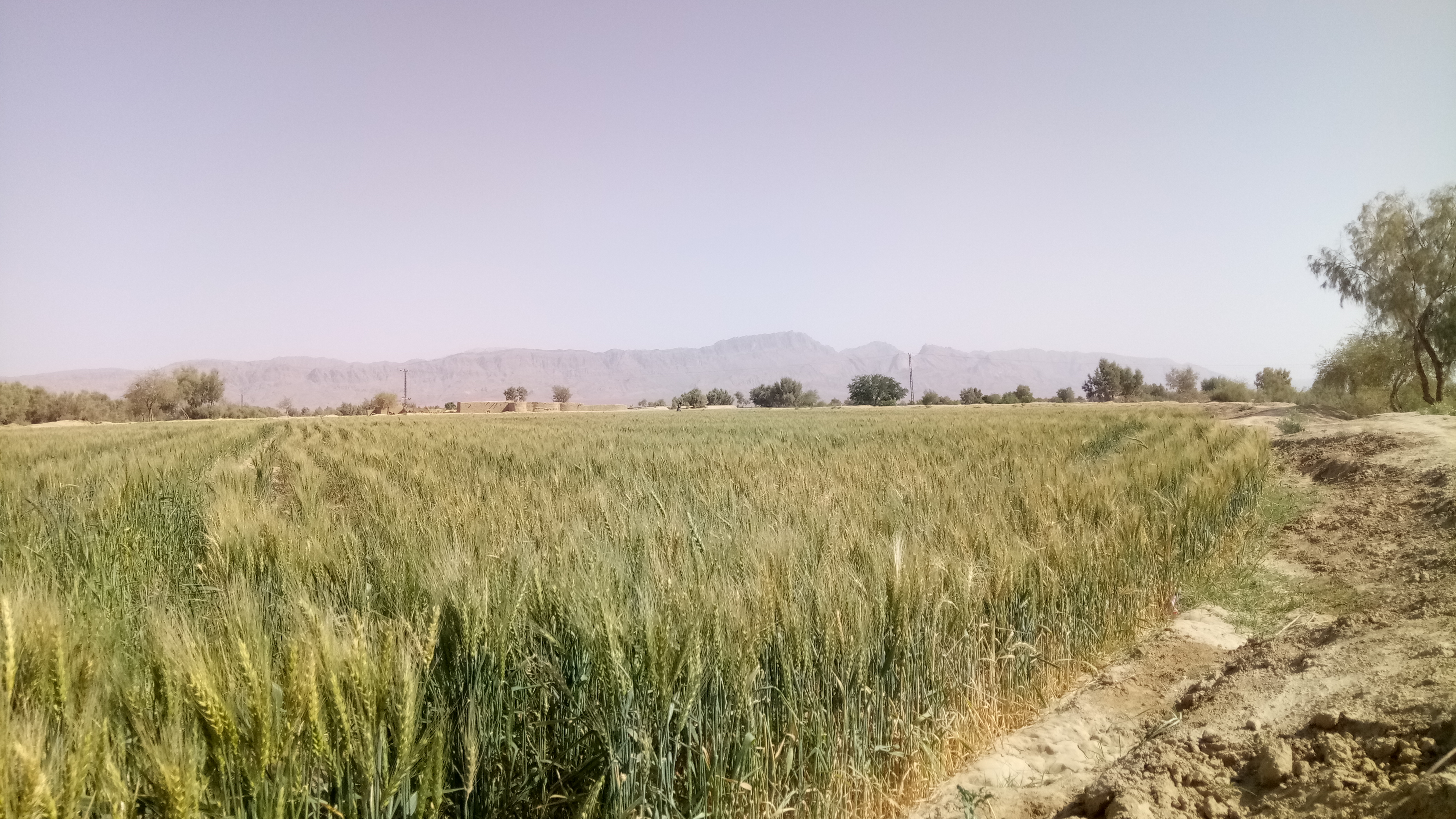 Shashan mountains range background, corps field foreground.